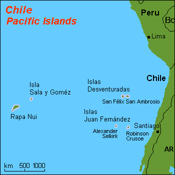 Map (rough) of some Chilean islands in the Pacific ocean, own work composed from various mapreferences